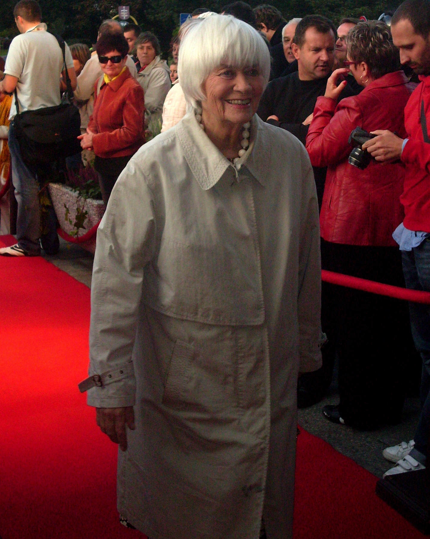 Polish actress Alina Janowska at opening of the XXXIV Polish Film Festival in Gdynia 2009.